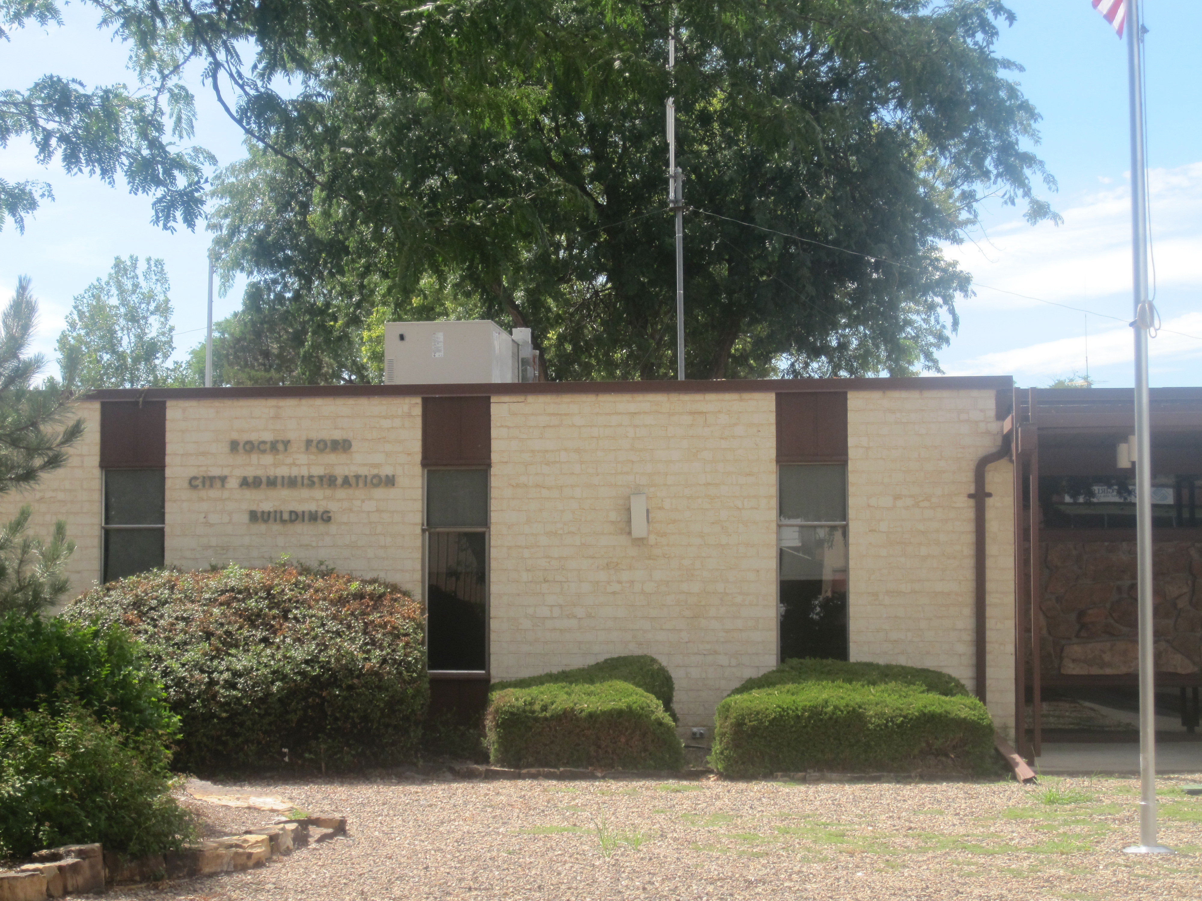 I took photo in Rocky Ford, CO, with Canon camera.